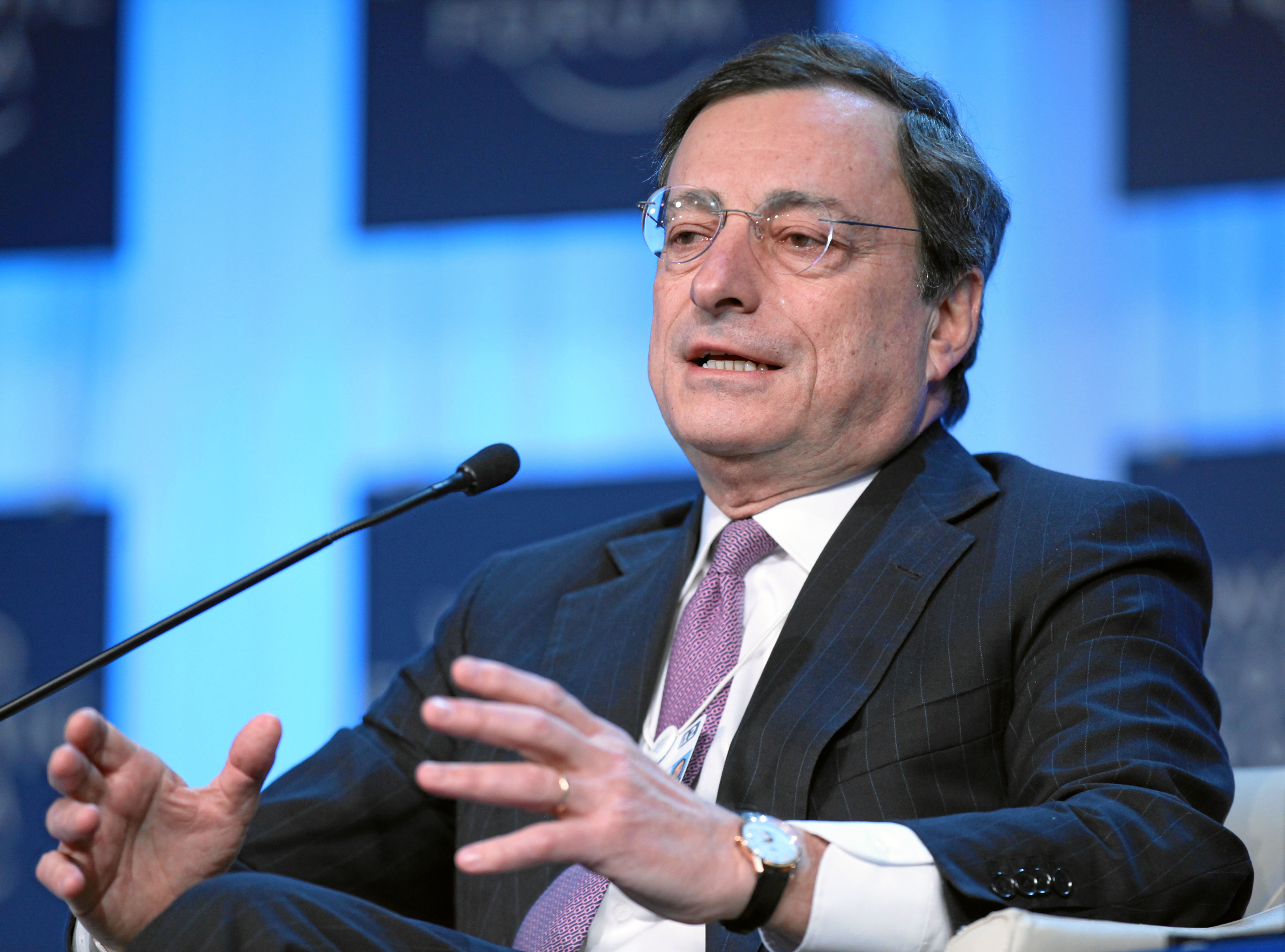 DAVOS/SWITZERLAND, 27JAN12 - Mario Draghi, President, European Central Bank, Frankfurt is captured during the session 'Europe's Economic Outlook' at the Annual Meeting 2012 of the World Economic Forum at the congress centre in Davos, Switzerland, January 27, 2012.. . Copyright by World Economic Forum. by Monika Flueckiger